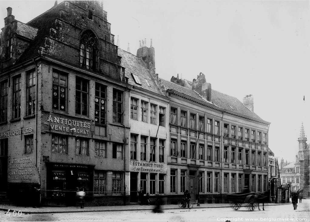 Sint-Jorishof,_Ghent,_Belgium,_1900,_M_Vollaert.jpg